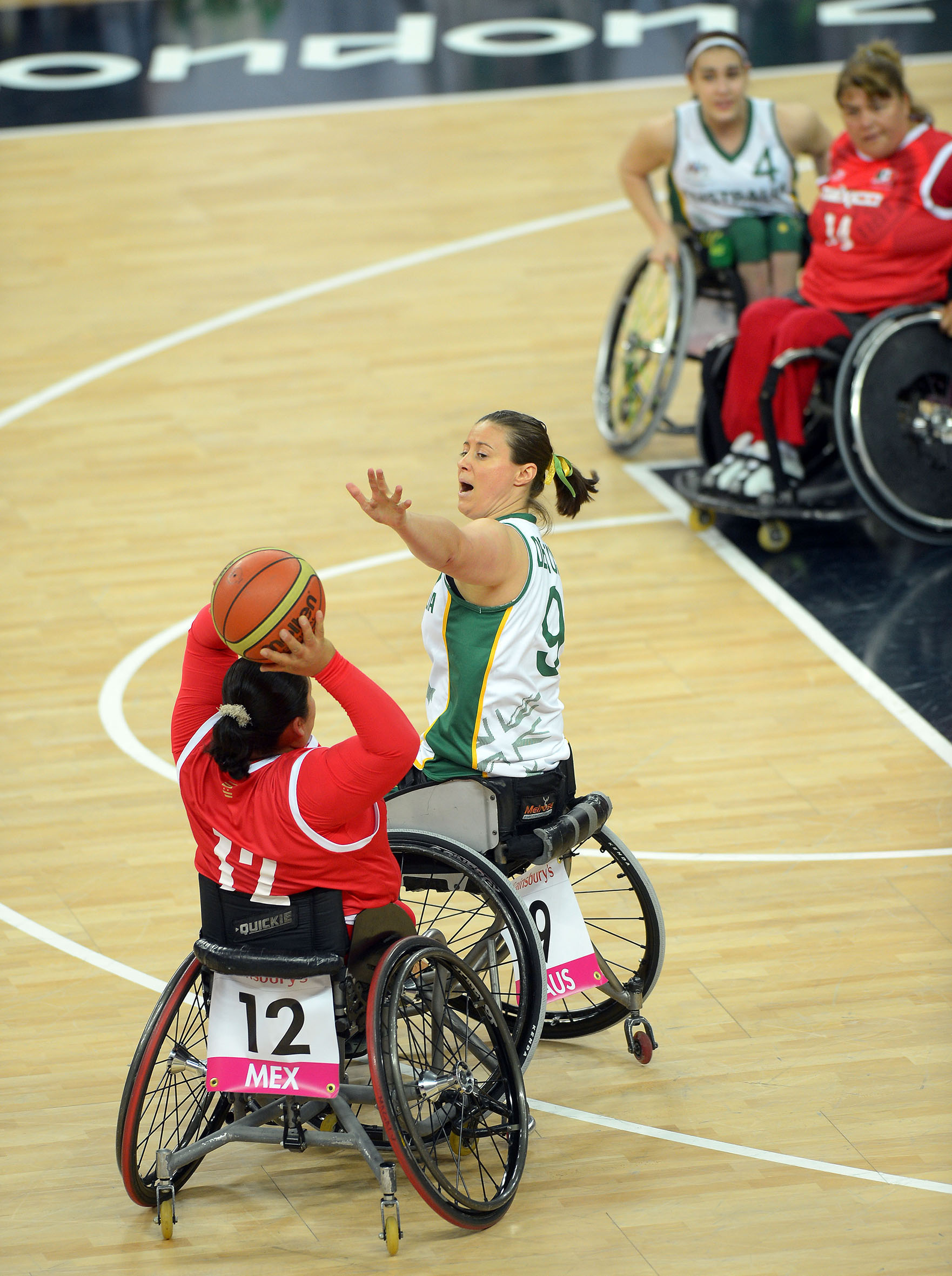 Photograph of Australian Paralympic team member Leanne Del Toso at the 2012 Summer Paralympic Games in London